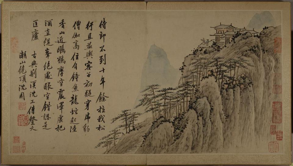 Landscape of Suzhou Sceneries by Shen Zhou, 1484-1504, ink and color on paper, Museum of Fine Arts, Boston